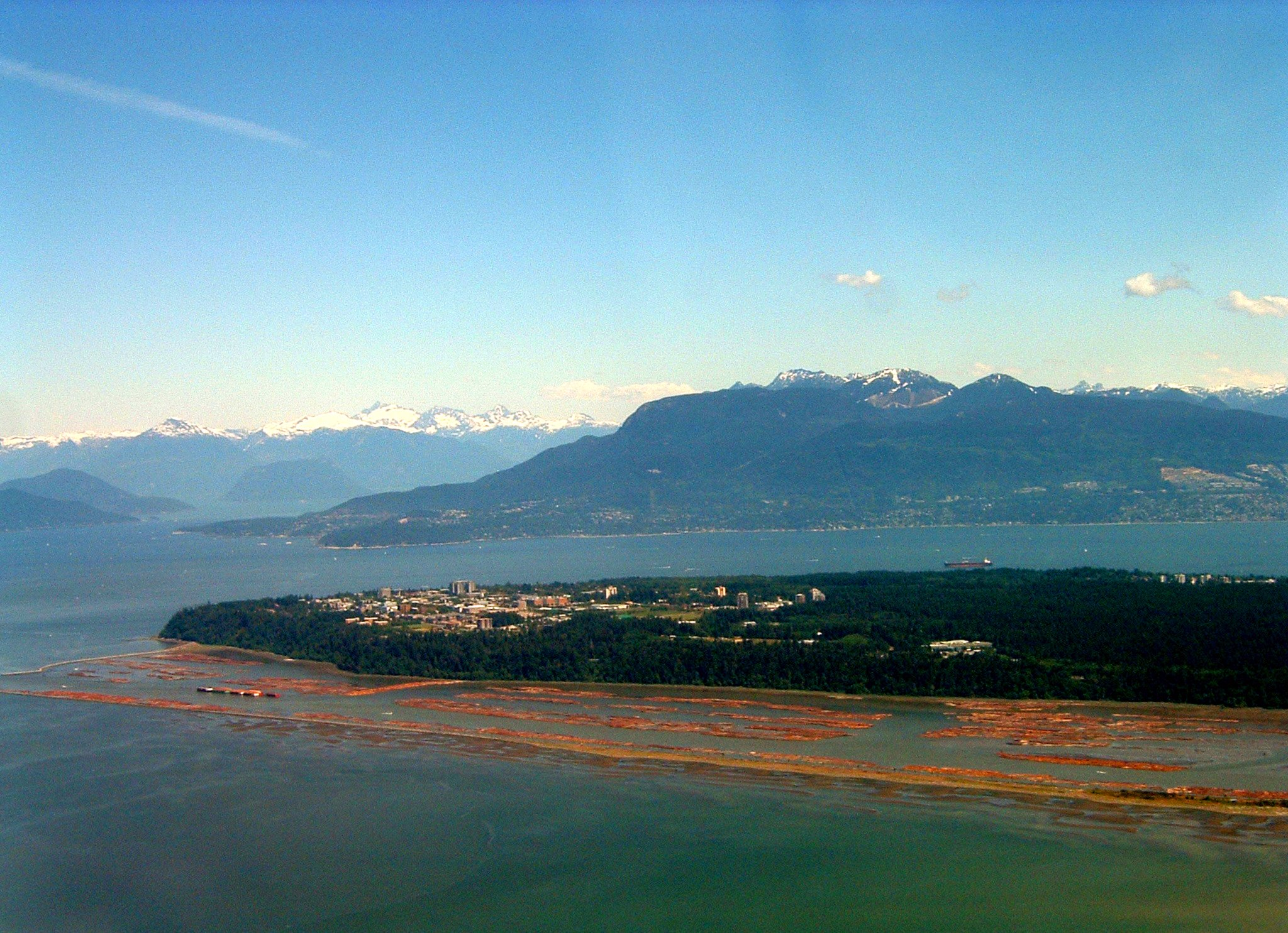 An aerial view of the campus of the University of British Columbia in Vancouver, British Columbia, Canada. Includes Pacific Spirit Park as well. Taken from an airplane taking off from Vancouver International Airport.